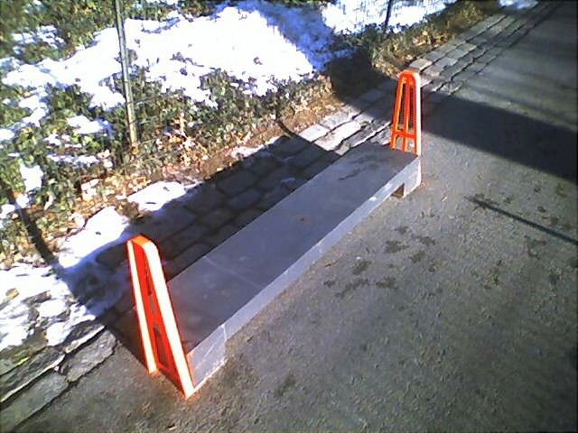 One of the many metal base parts of The Gates art installation. The photograph was taken in Central Park in New York City near the corner of 79th Street and 5th Avenue.